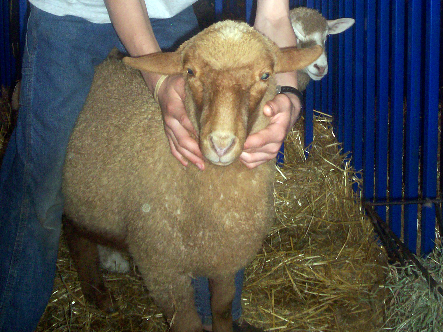 American Tunis sheep at the 2008 Maryland Sheep and Wool Festival in West Friendship, Maryland.